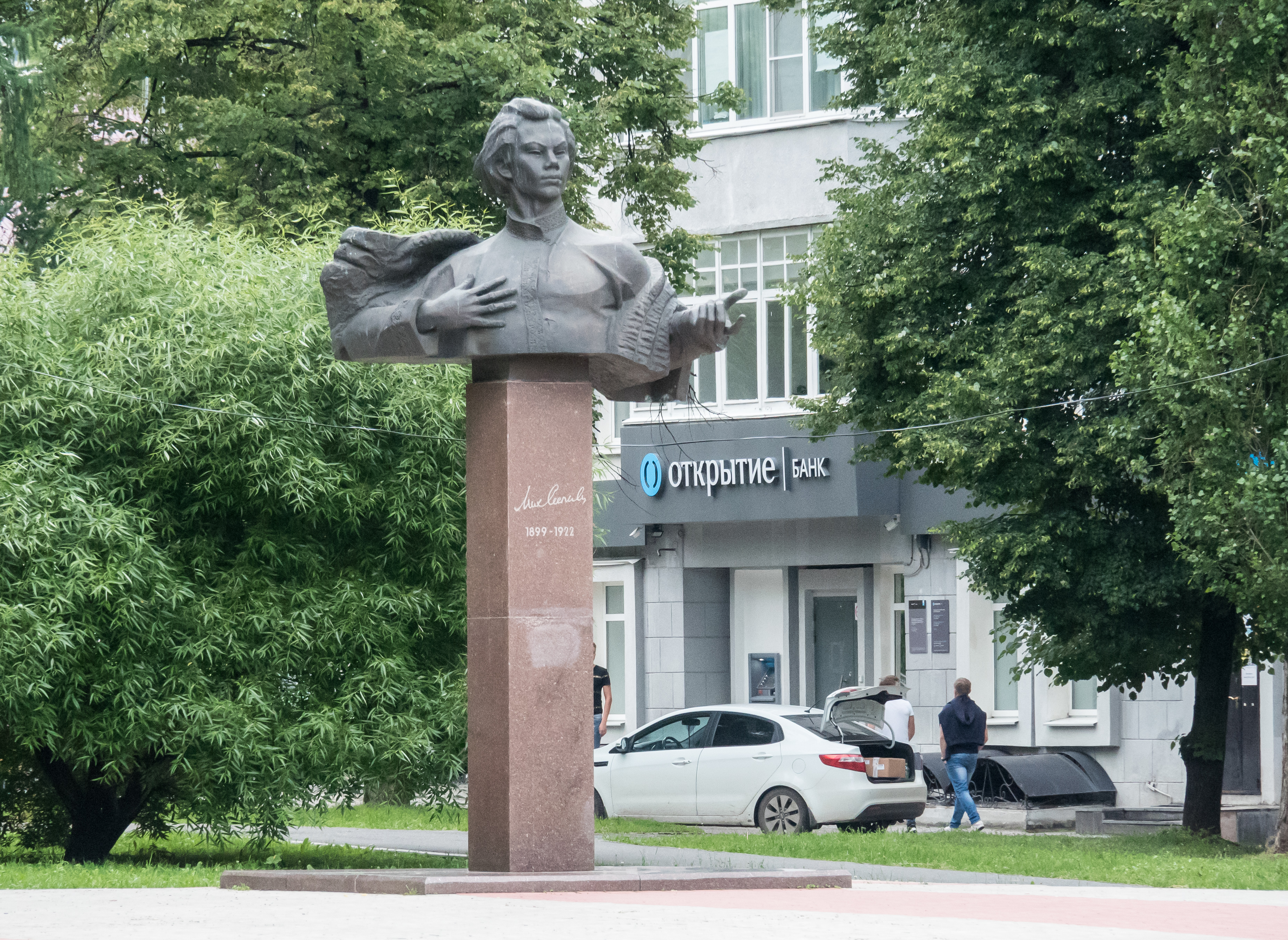 Памятник М. Сеспелю